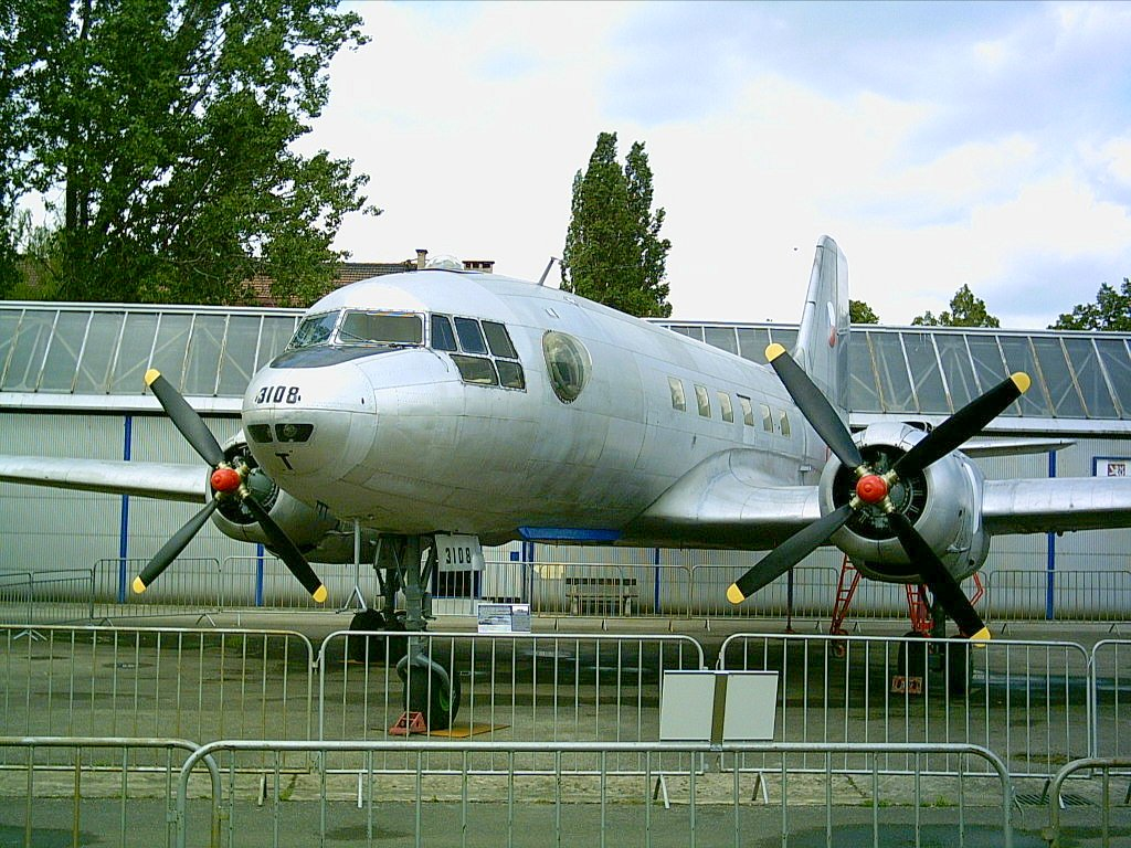 Avia Av 14-32 A, Kbely museum, Prague, Czech Republic